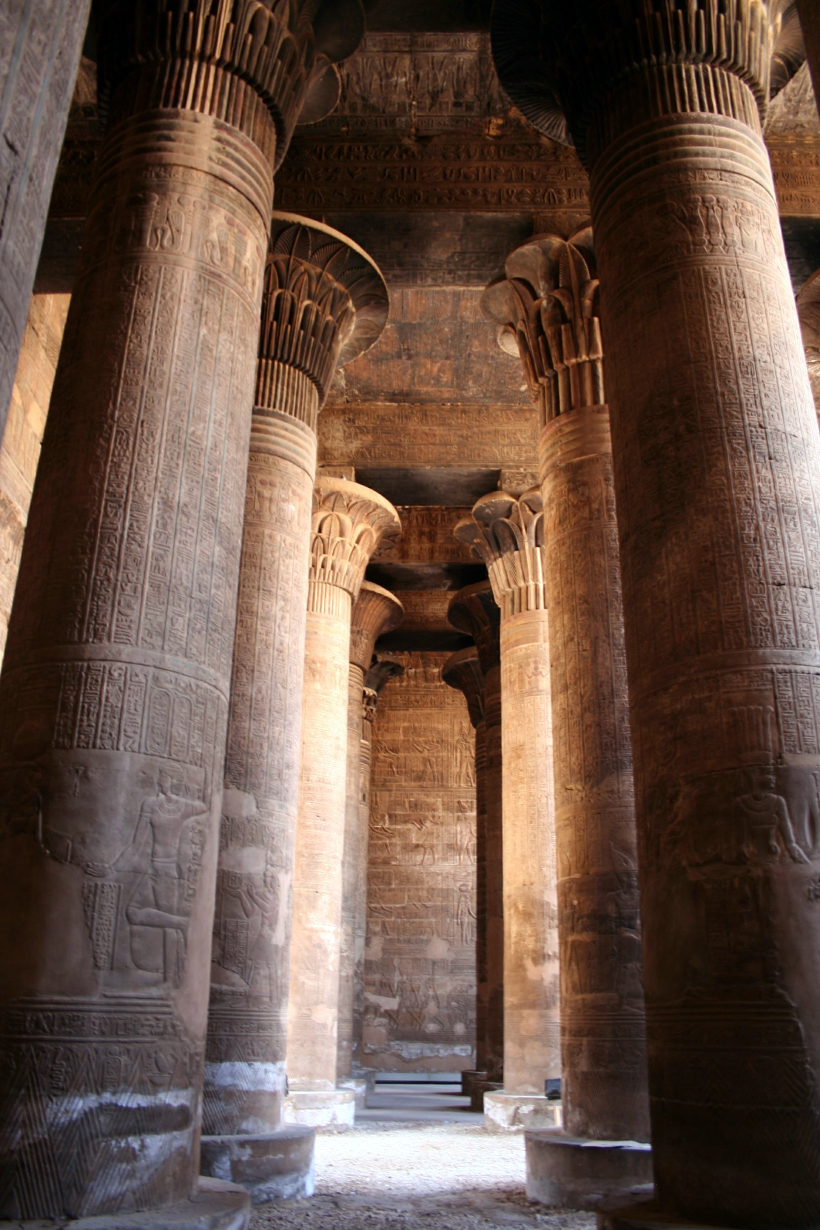 Columns at the temple of Khnum, Esna - Although badly damaged by early fire as were the ones at Esna, they still retain much of their beauty...